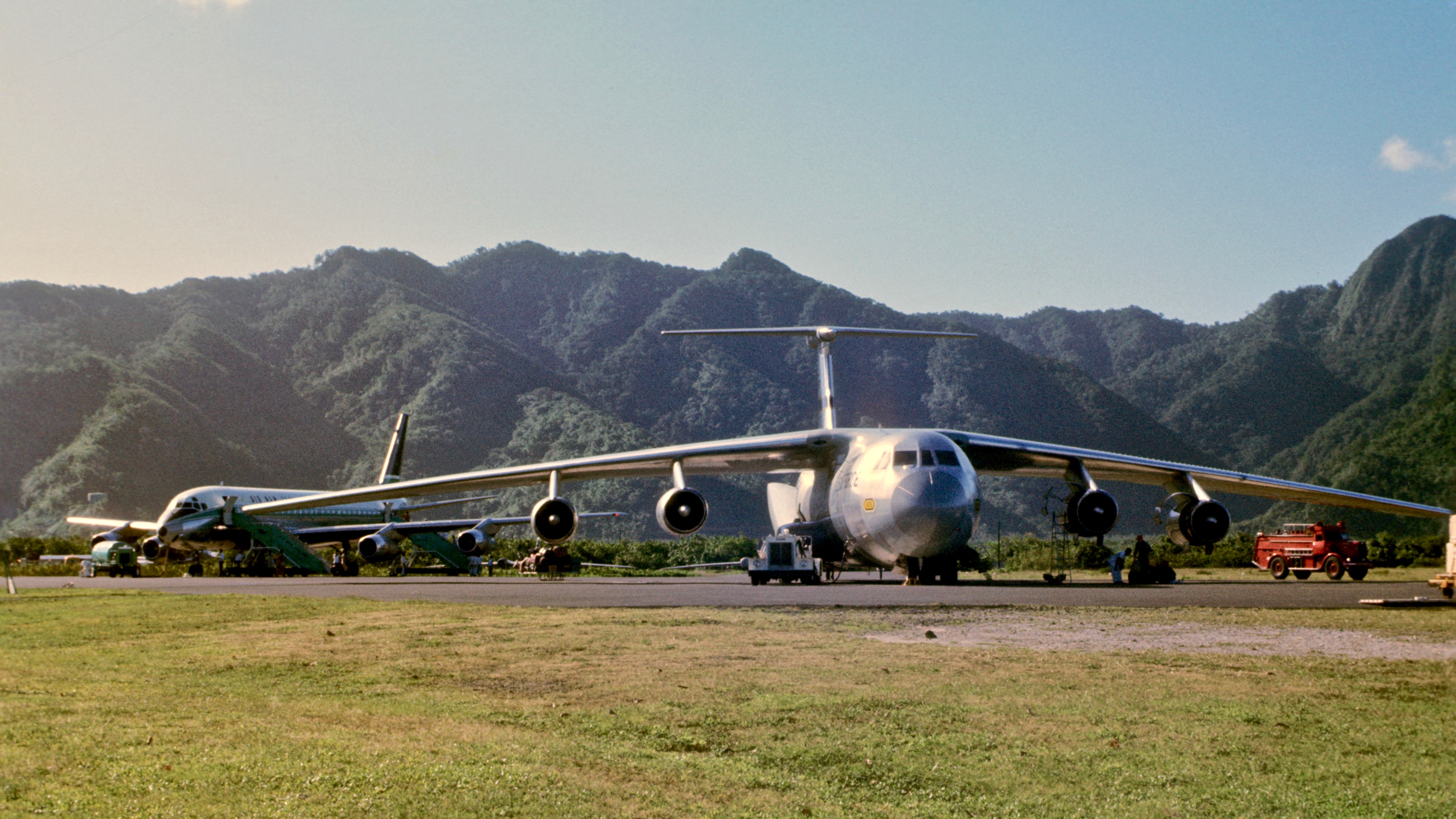 A USAF Military Airlift Command C-141 at Pago Pago International Airport on 24 July 1968. An Air New Zealand DC-8 is loading passengers in the background.